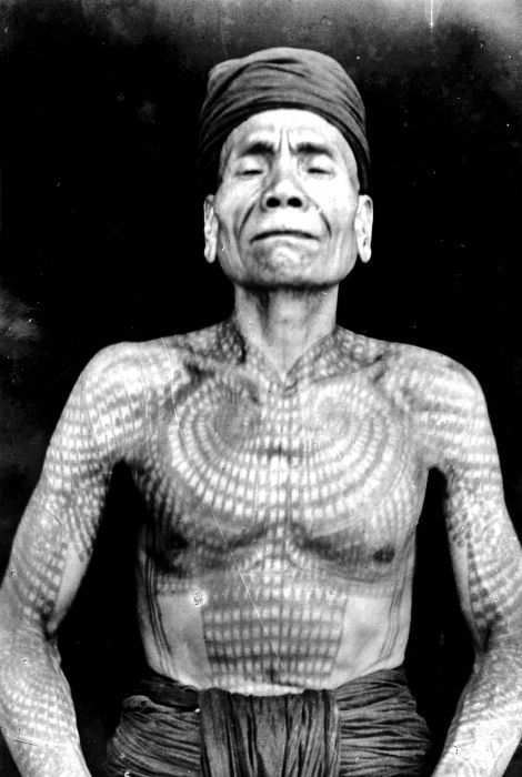 Tattood Dajak, Borneo